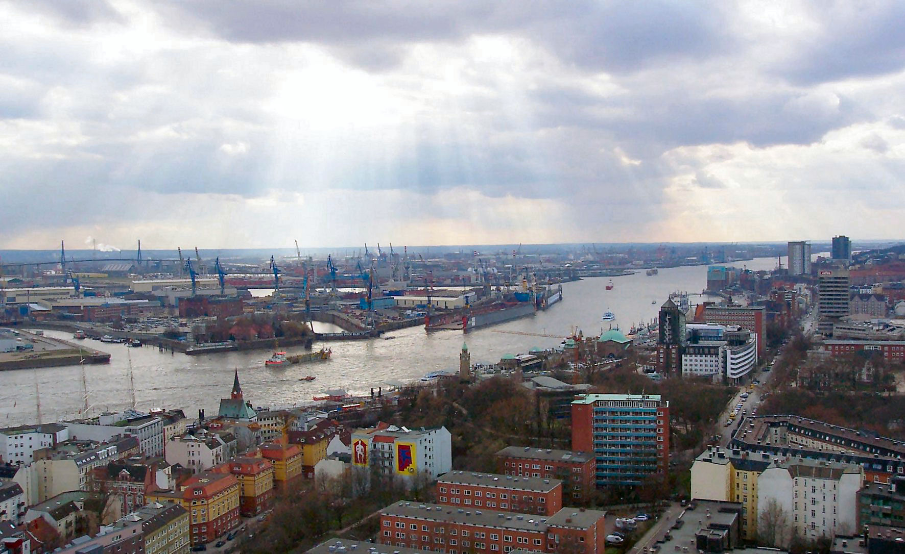 View from St. Michaelis' Church, Hamburg over the river Elbe.